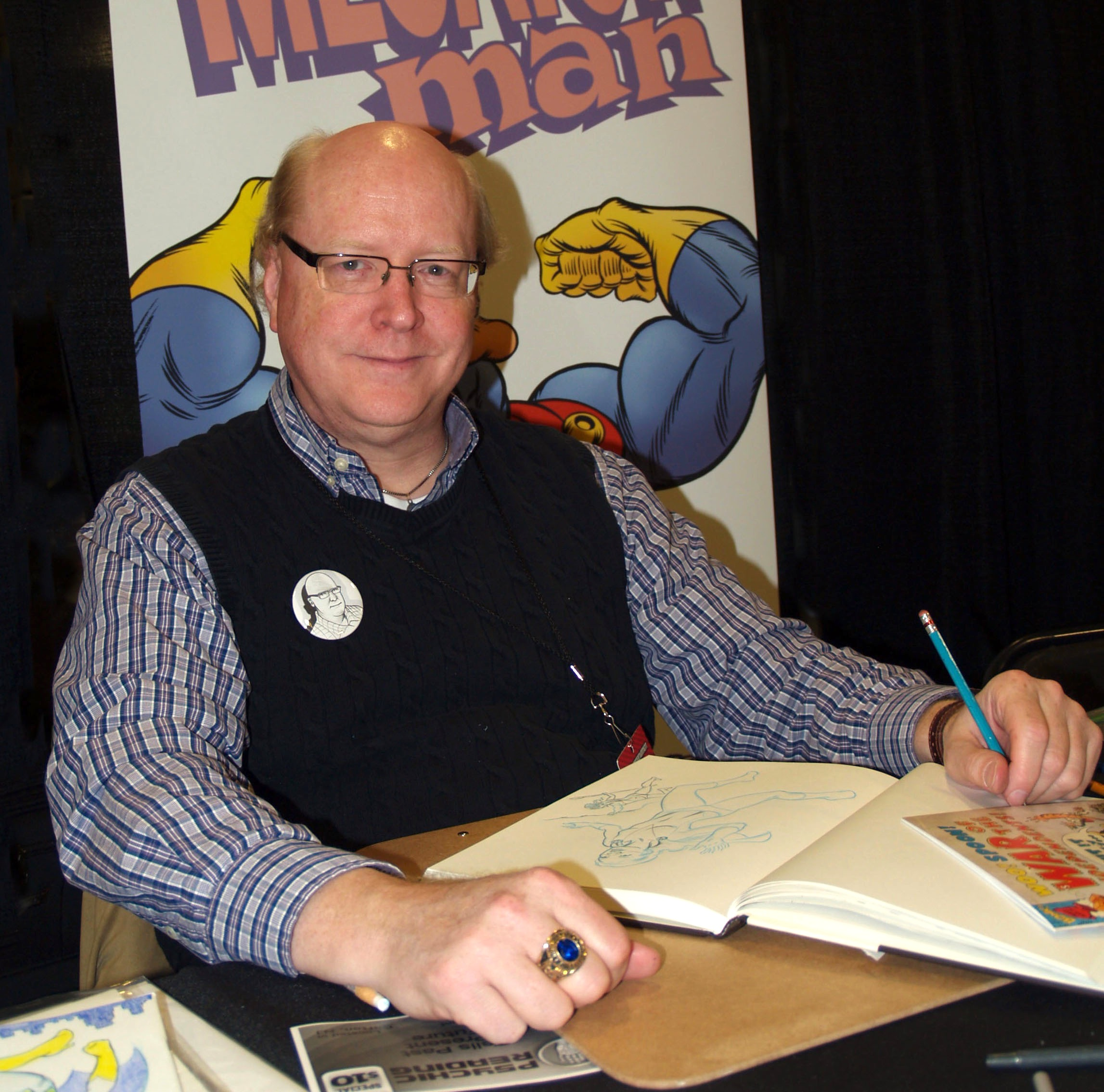 Comics creator Don Simpson at the Meadowlands Exposition Center in Secaucus, New Jersey on April 16, 2016, Day 1 of the 2016 East Coast Comicon. This photo was created by Luigi Novi. It is not in the public domain, and use of this file outside of the licensing terms is a copyright violation.